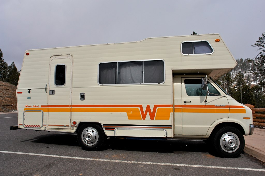 Minnie Winnie, Bryce Canyon National Park, Utah